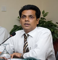 Picture of Politician and Businessman Reeko Moosa, Maldives